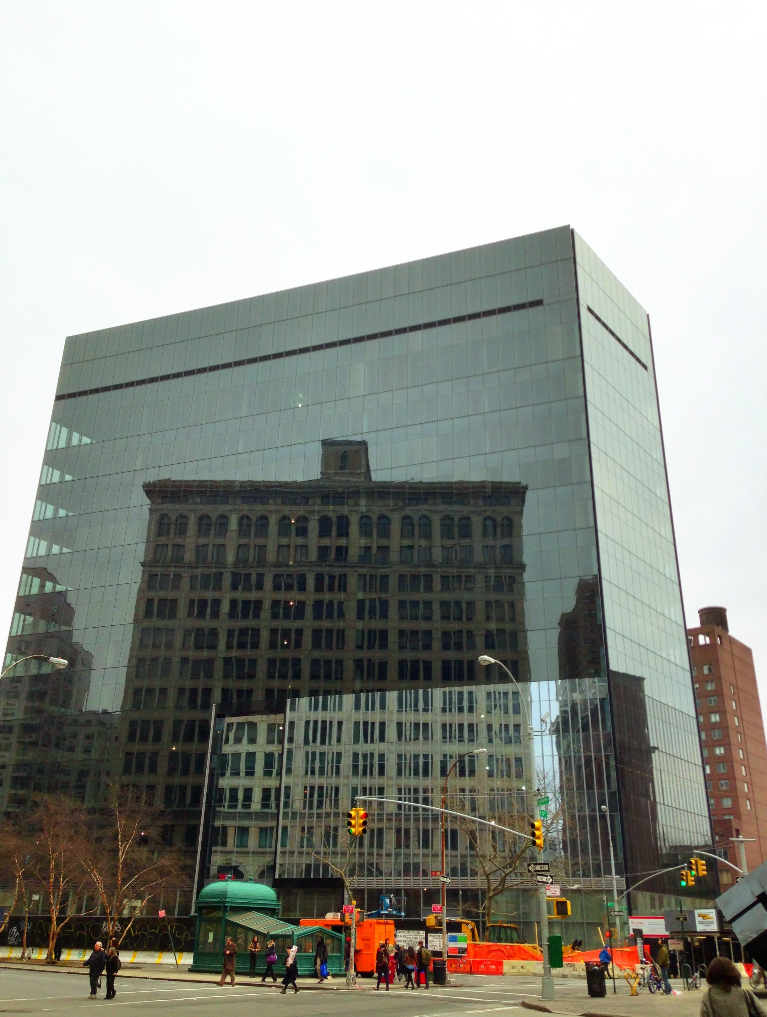 Astor Place 2013